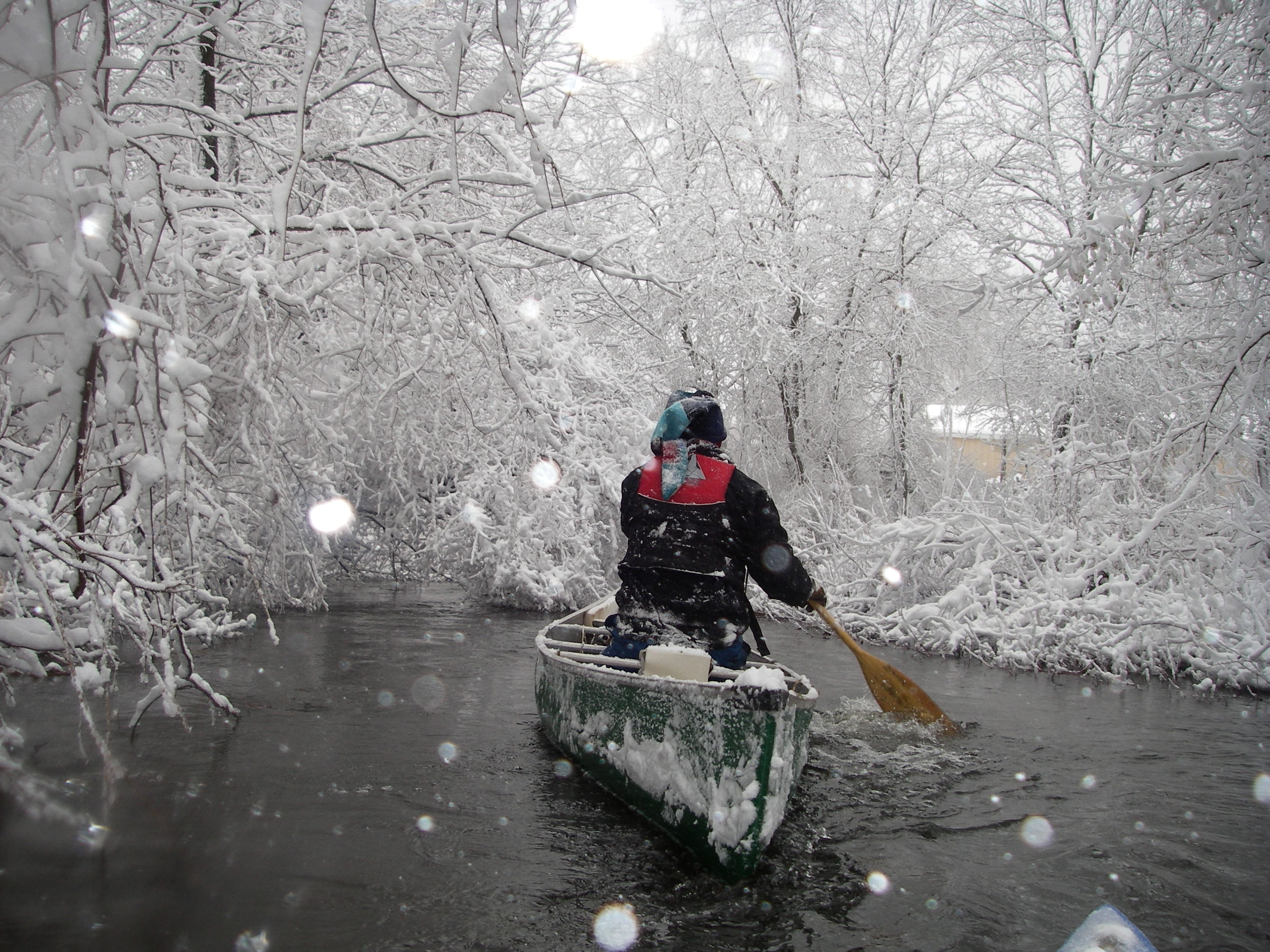 Shiawassee River paddle in the middle of winter (Feb 5, 2006) near Holly, Michigan.